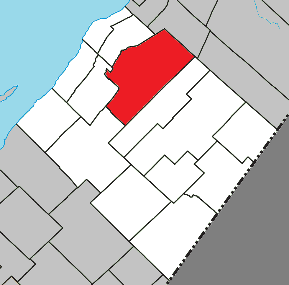 Location of Saint-Damase-de-L'Islet, Quebec within L'Islet Regional County Municipality.